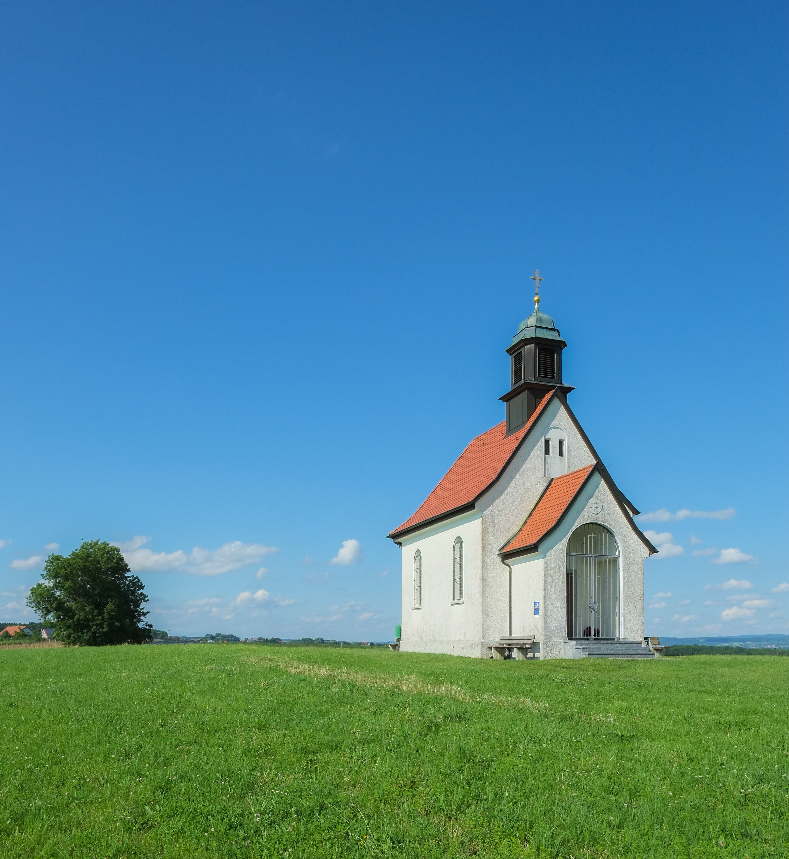 Chapel Haldenbergkapelle in Friedrichshafen-Ailingen, county Bodenseekreis, Baden Wurttemberg, Germany